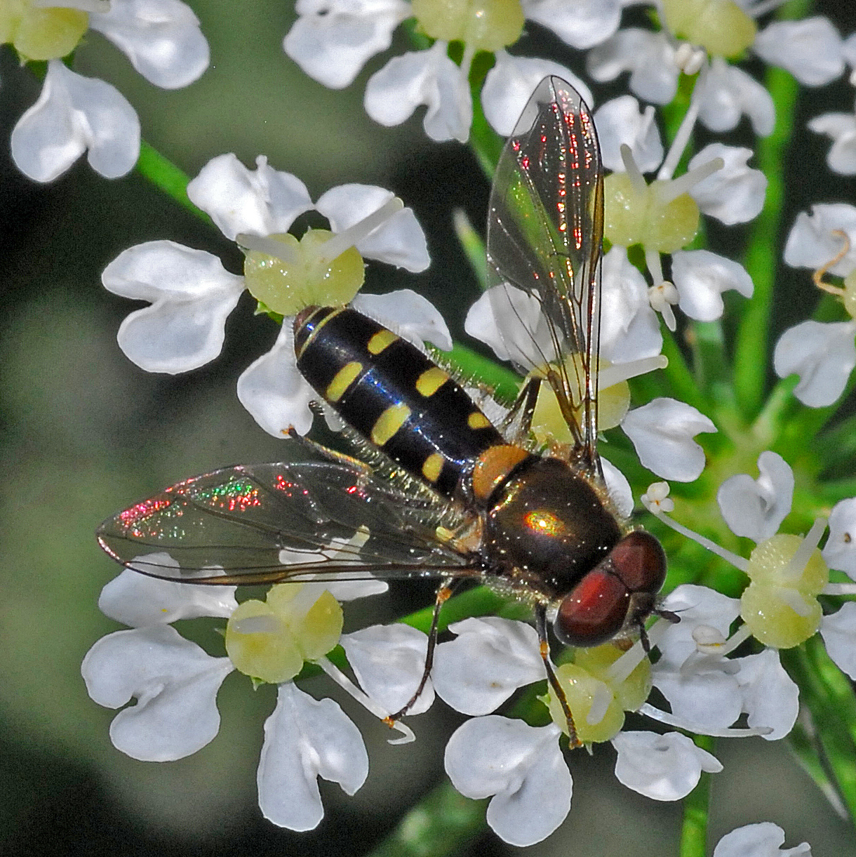 Melangyna umbellatarum, male. Fraisse. Turin, Italy